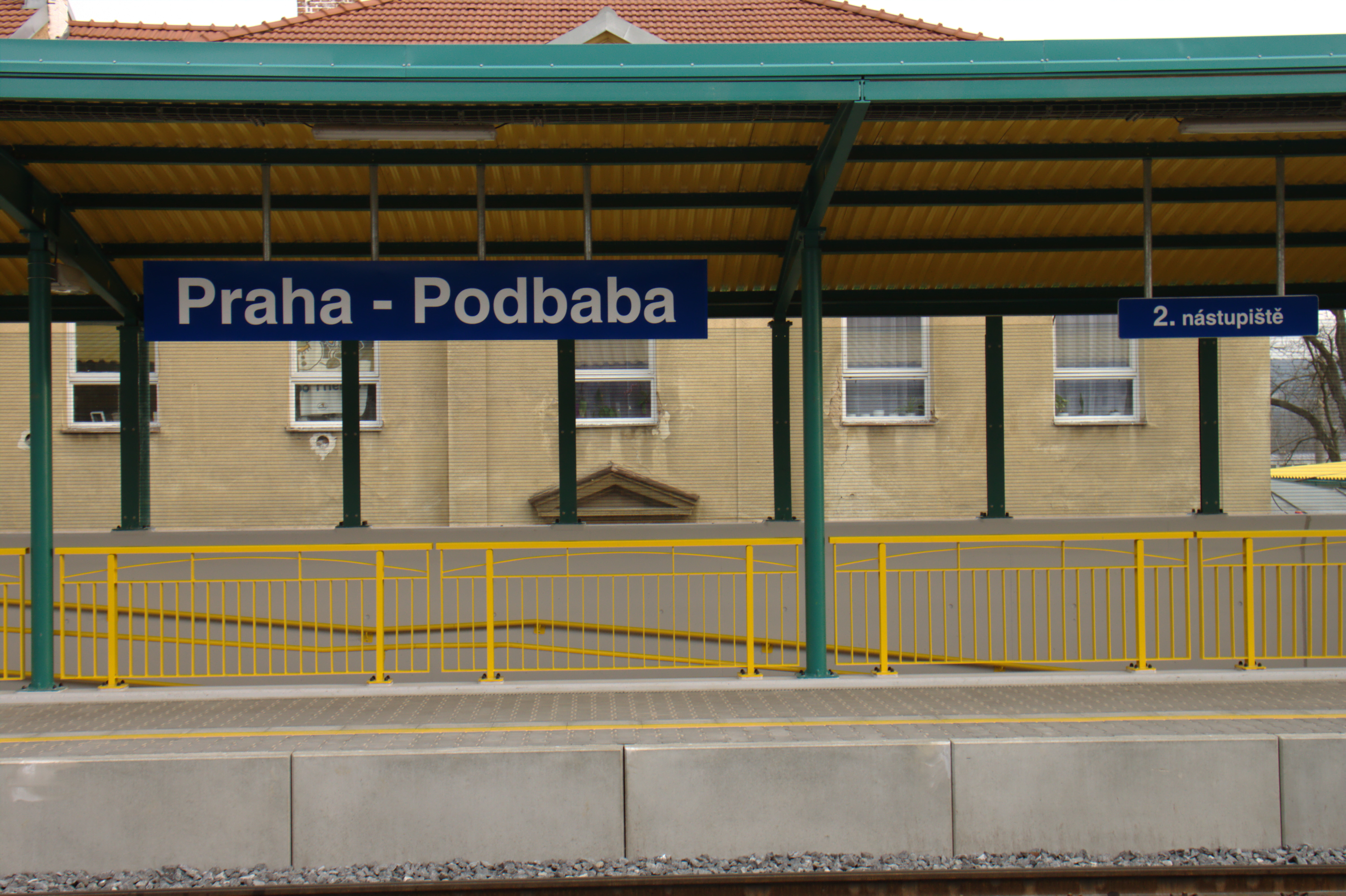 Prague-Podbaba train station, after opening